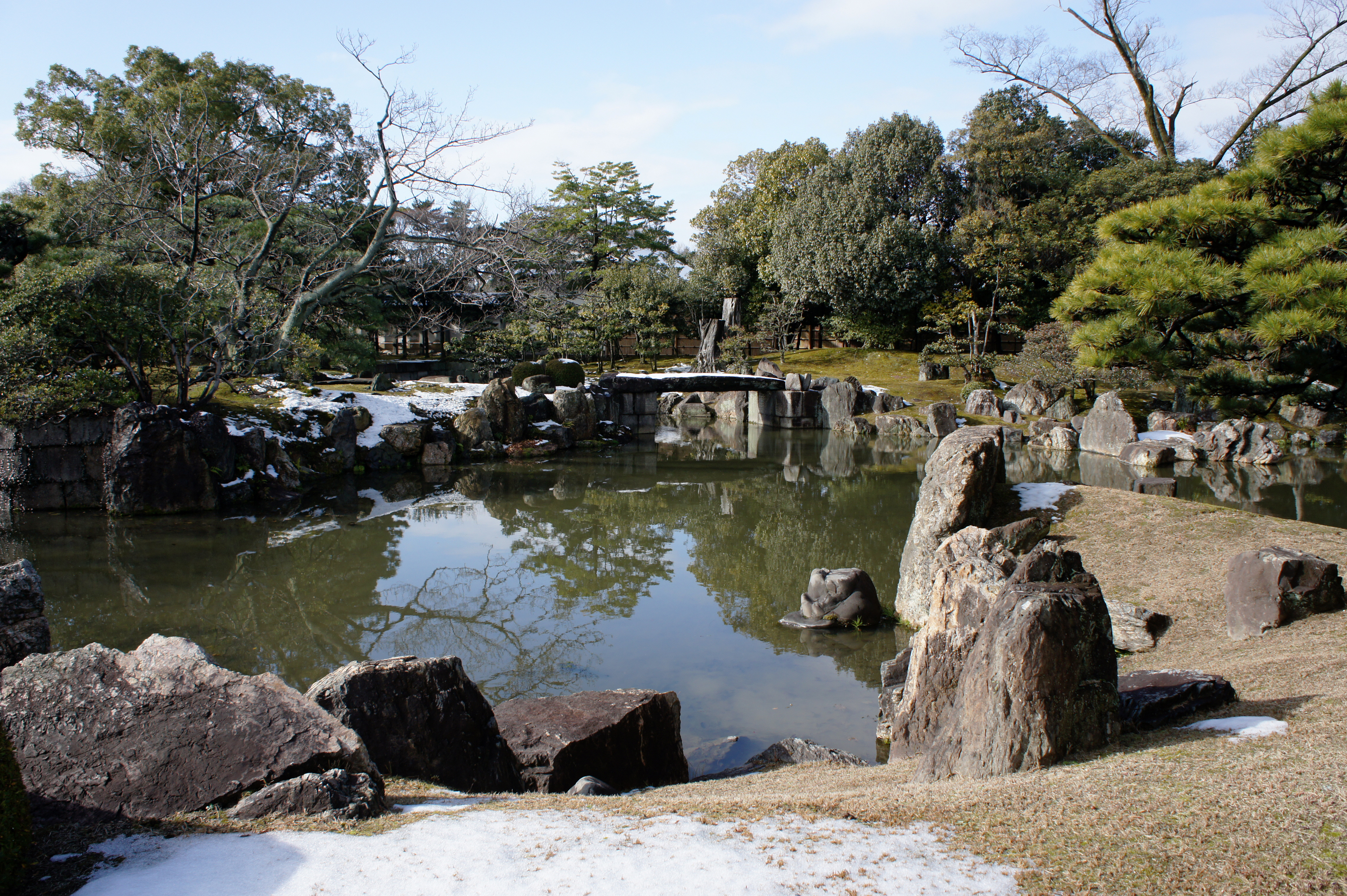 Nijō Castle's Ninomaru Garden is the Japan's Special Places of Scenic Beauty in Kyoto, Kyoto Prefecture, Japan. Nijō Castle was registered as part of the UNESCO World Heritage Site "Historic monuments of ancient Kyoto".